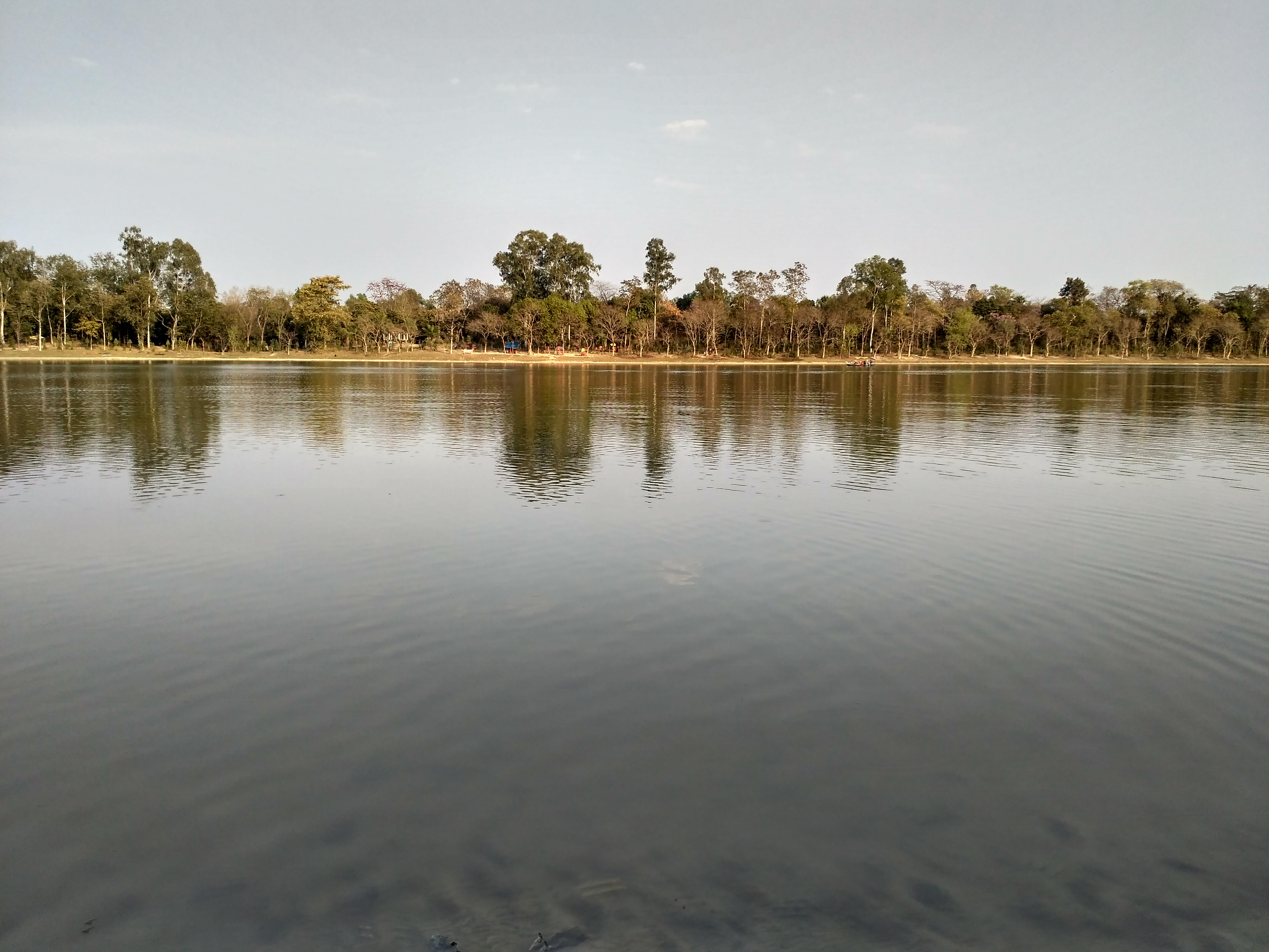 View of Ramsagar, the lake like sea, in Dinajpur, Bangladesh. (02.03.2019)